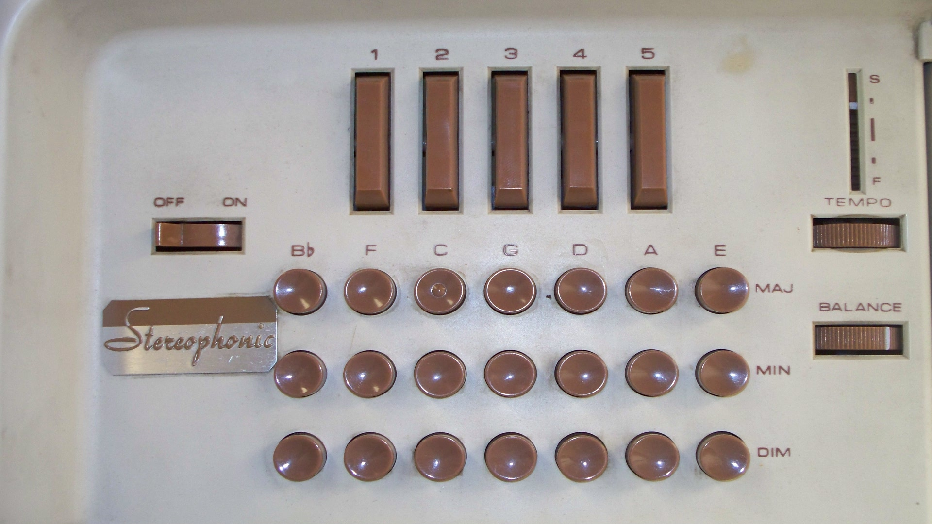 Detail of the chord buttons, power switch, stereo balance control wheel, tempo control wheel and special effects rocker switches of a ca. 1971 Optigan Music Maker optical organ, model 35002. Owned and photographed by user PMDrive1061.